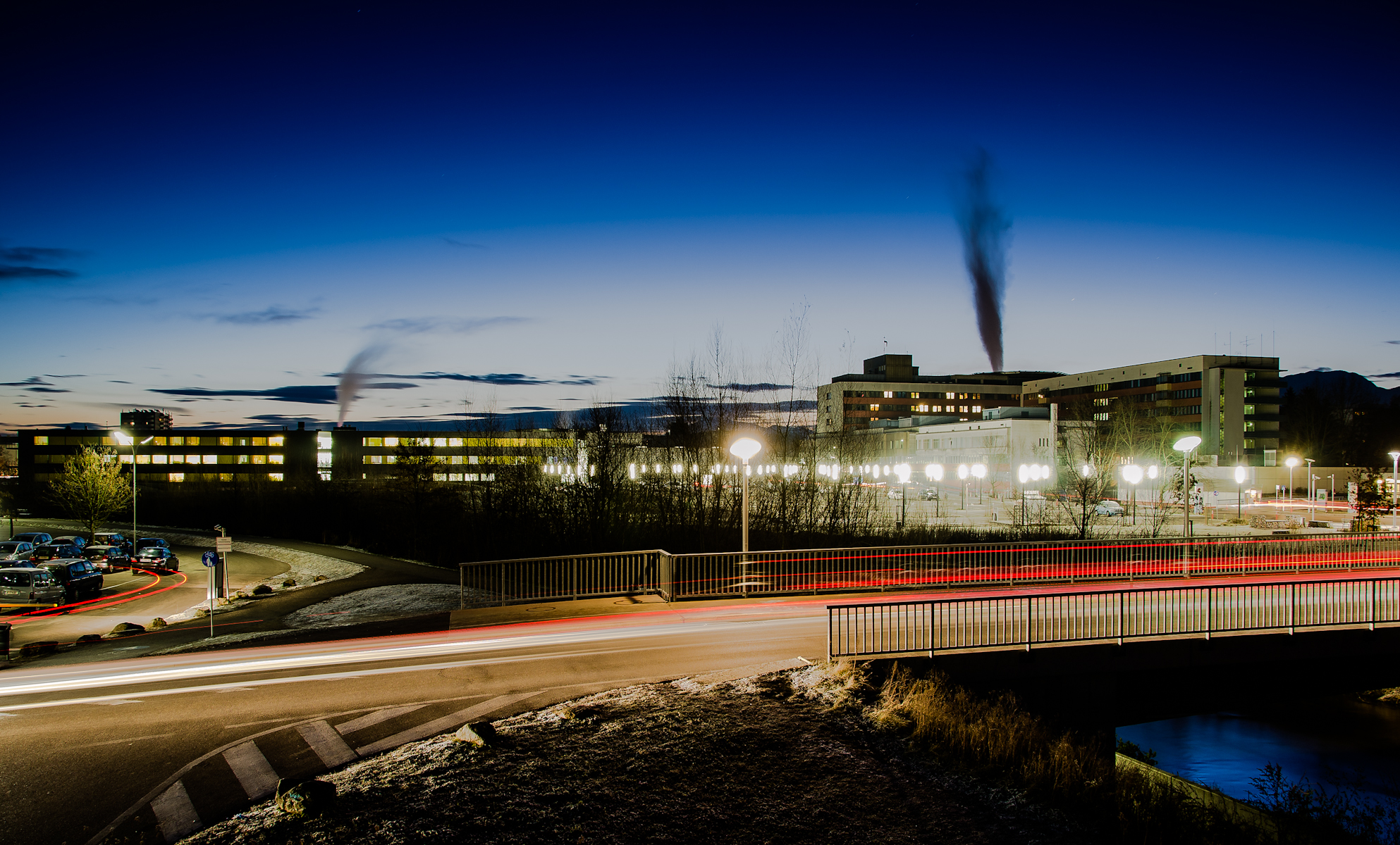 Klinikum-Klagenfurt am Wörthersee at dawn